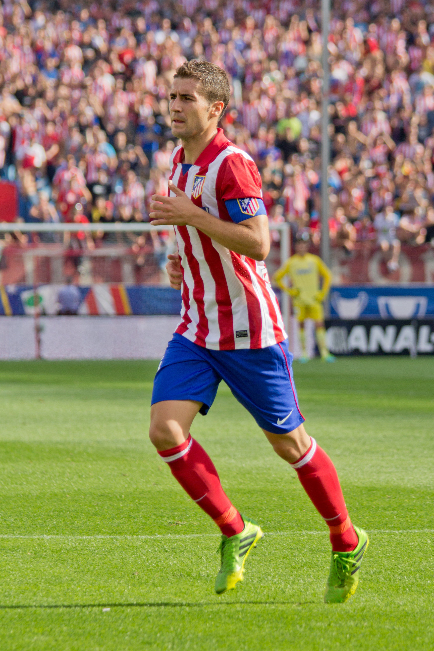 Gabi Fernández, footballer of Atlético de Madrid.